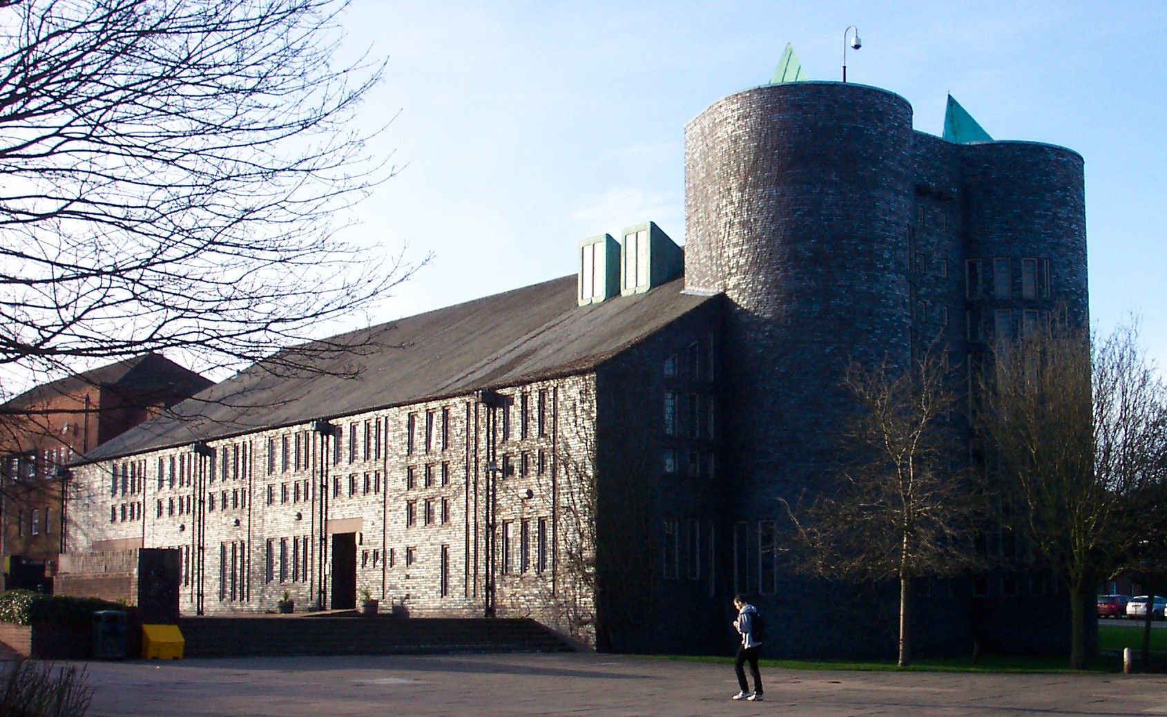 Keele University Chapel, Staffordshire, seen from the southeast